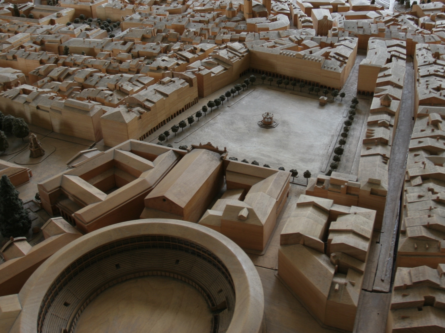 1:200 model of the Pamplona centre as around the year of 1900 , displayed in the courtyard of the Archivo Real y General de Navarra in Pamplona